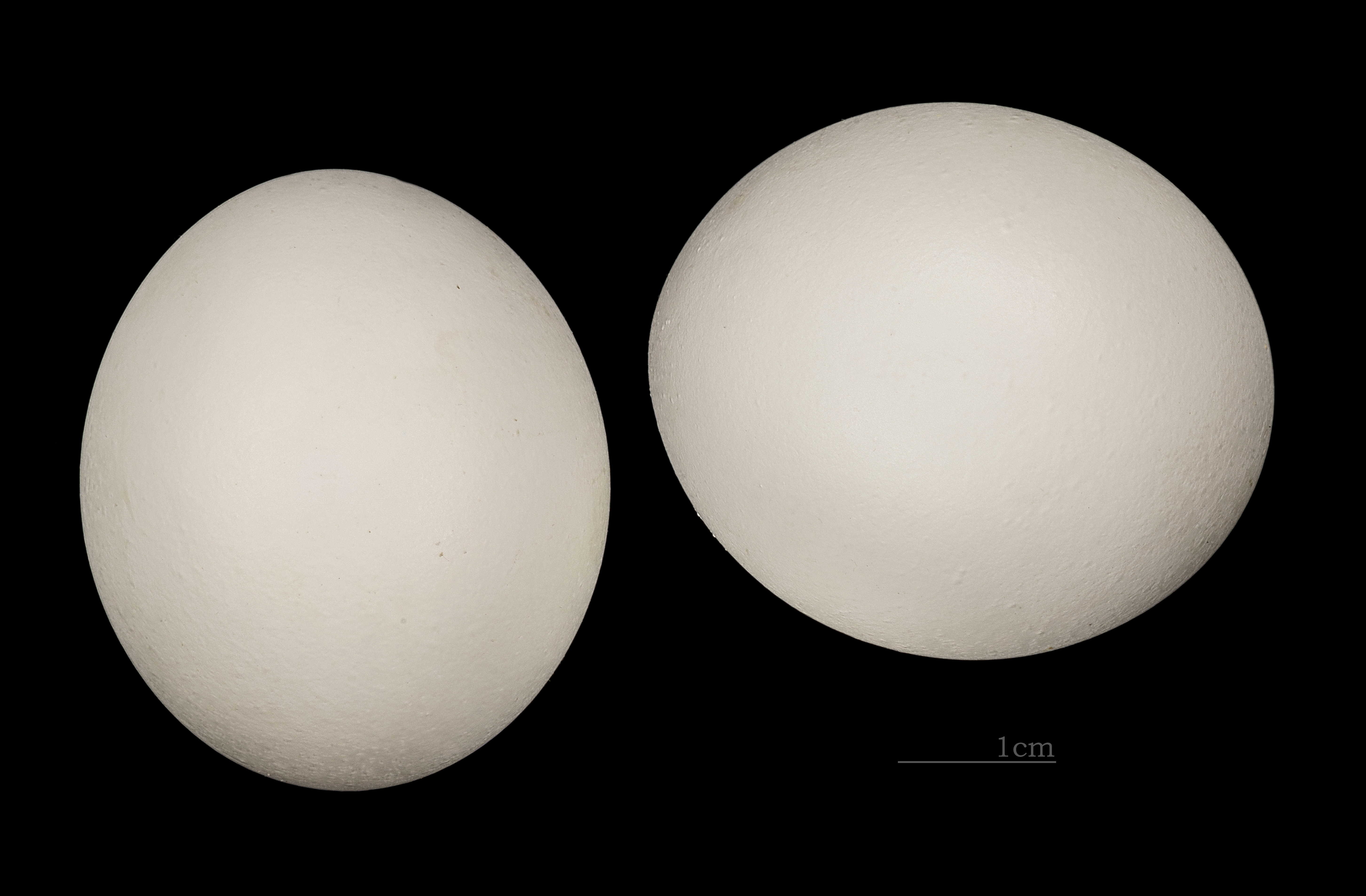 Egg of Knysna Turaco Collection of Jacques Perrin de Brichambaut.